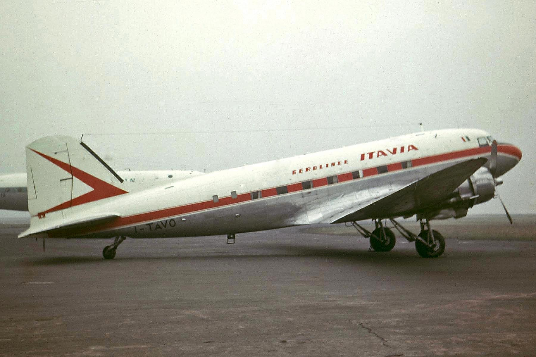 "I-TAVO Douglas C-47 Aerolinee Itavia (Bardock Avn) LPL 10JAN64 Parked on the Aviation Overhauls Ramp. Not the best of shots but I remember it was a typical dark January day. I-TAVO had been bought by Bardock Aviation (Lord & Lady Docker), another UK airline start-up of the early 1960's that didn't last long!"